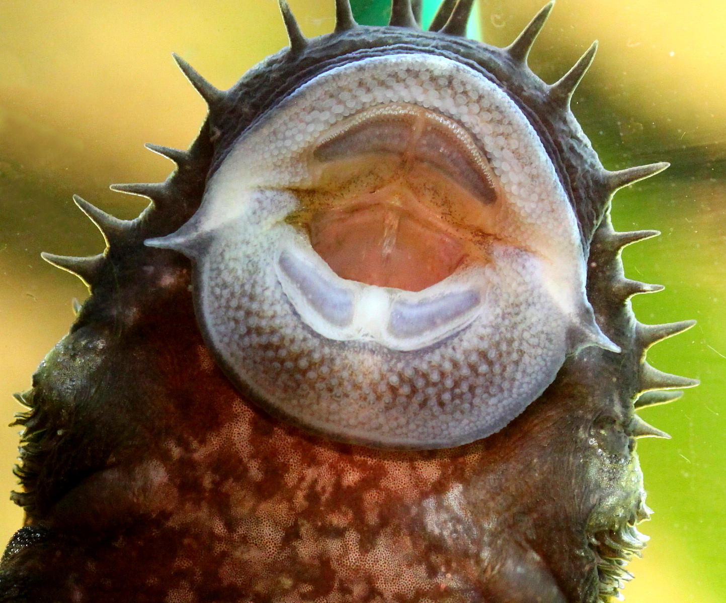 Mouth of a male Bushymouth catfish.